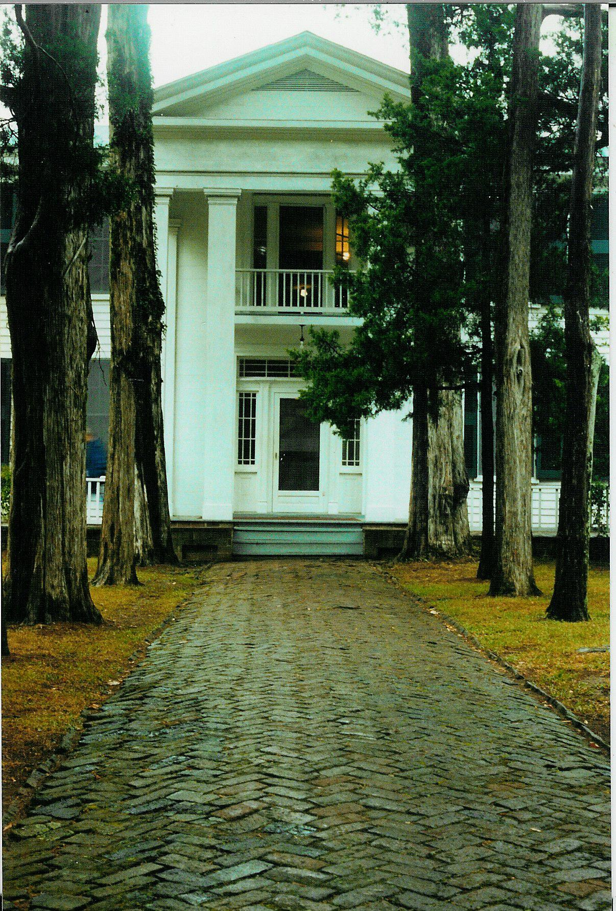 Front walk and entrance of Rowan Oak, the home of Nobel laureate and American novelist William Faulkner in Oxford, Mississippi. It is now owned and maintained by the University of Mississippi as a museum. One of the oldest structures in Oxford, this Greek Revival house on Old Taylor Road was built in the 1840s by a Colonel Shegog. Faulkner bought the crumbling house, then known as the “Bailey Place” in 1930 and promptly renamed it, then slowly refurbished it. Faulkner’s daughter sold Rowan Oak to the university in 1972.